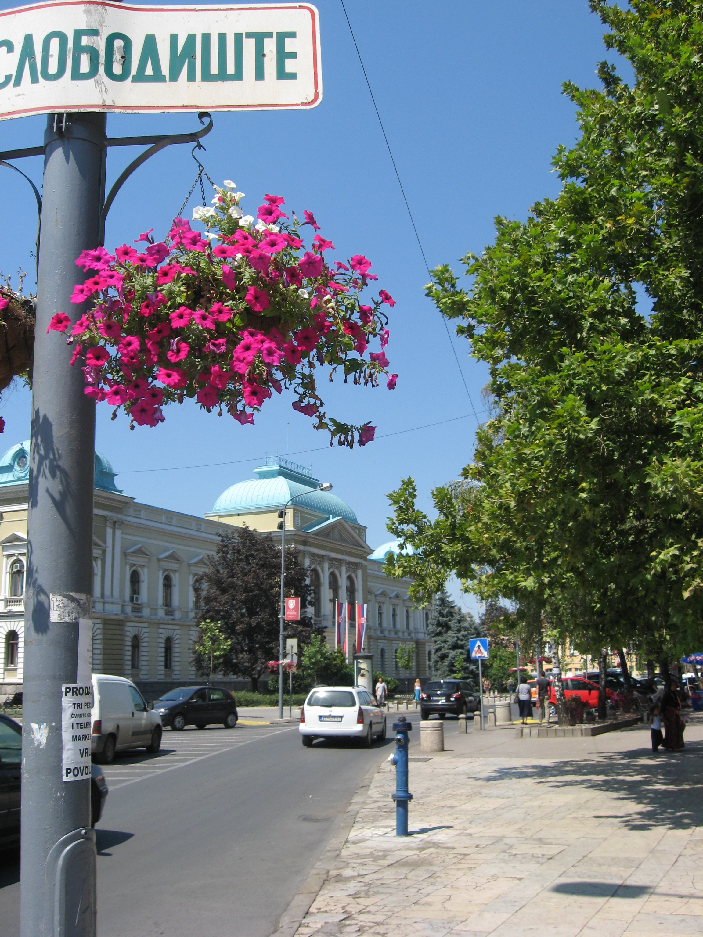 Kruševac - City Hall